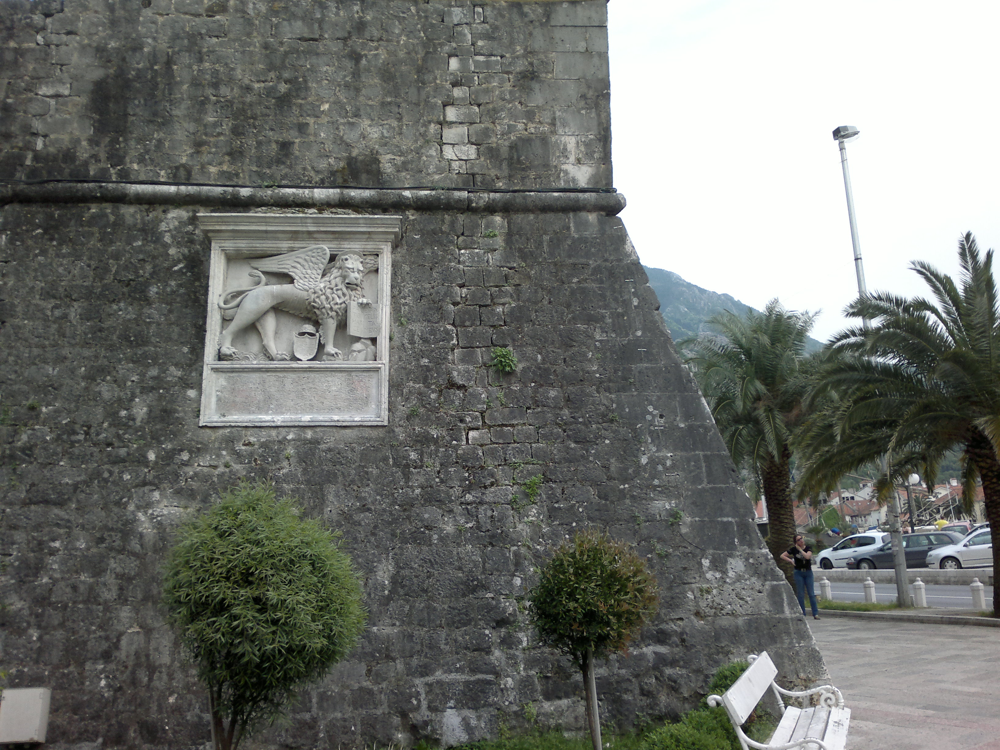 Venetian COA on the wall of Kotor fortress